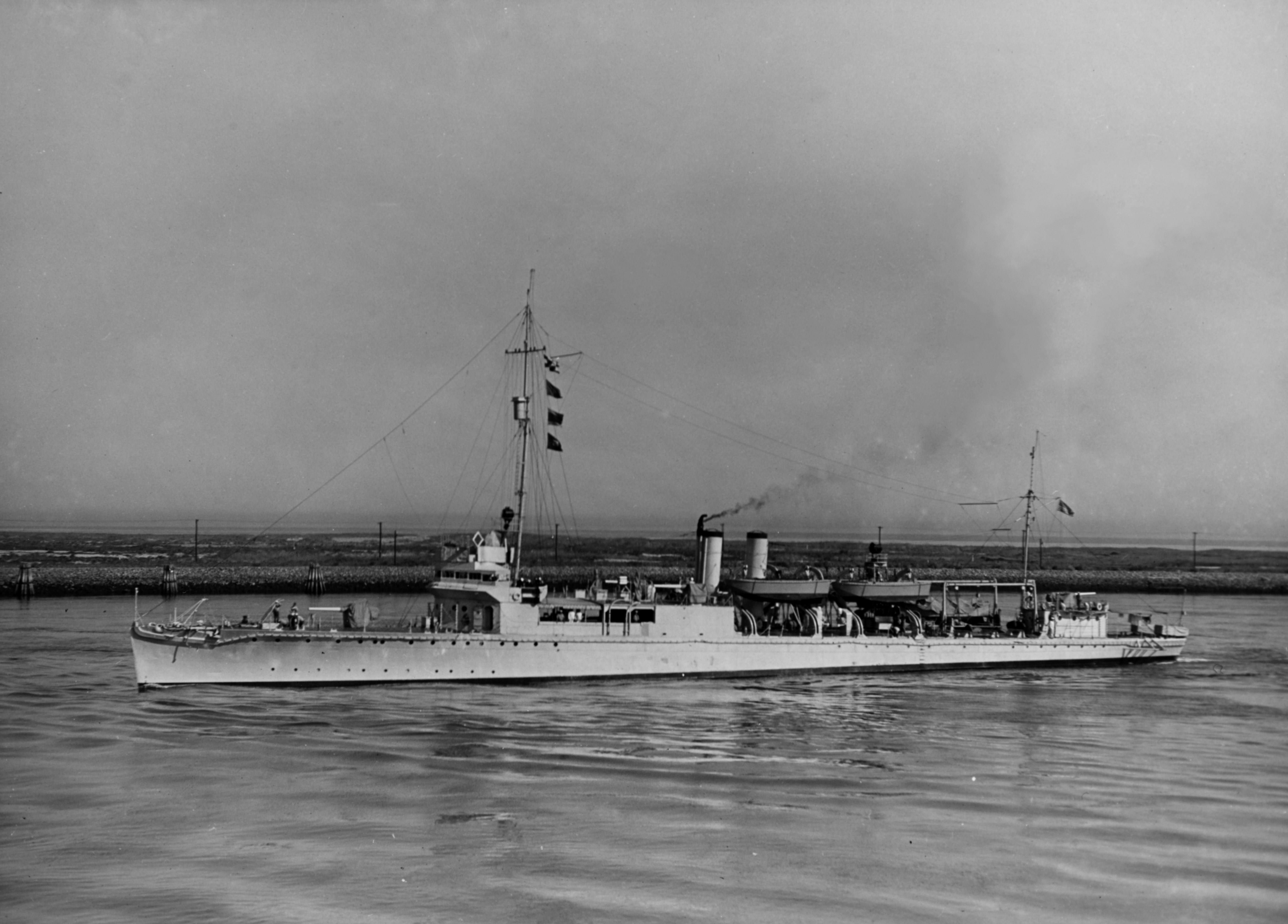 The U.S. Navy high speed transport USS Manley (APD-1) steaming through the Cape Cod Canal on 23 September 1940, following conversion to a high-speed transport. Note the Higgins Boat landing craft on her davits and the external degaussing cable on her hull below the deck edge. Her designation was changed from AG-28 to APD-1 on 2 August 1940.